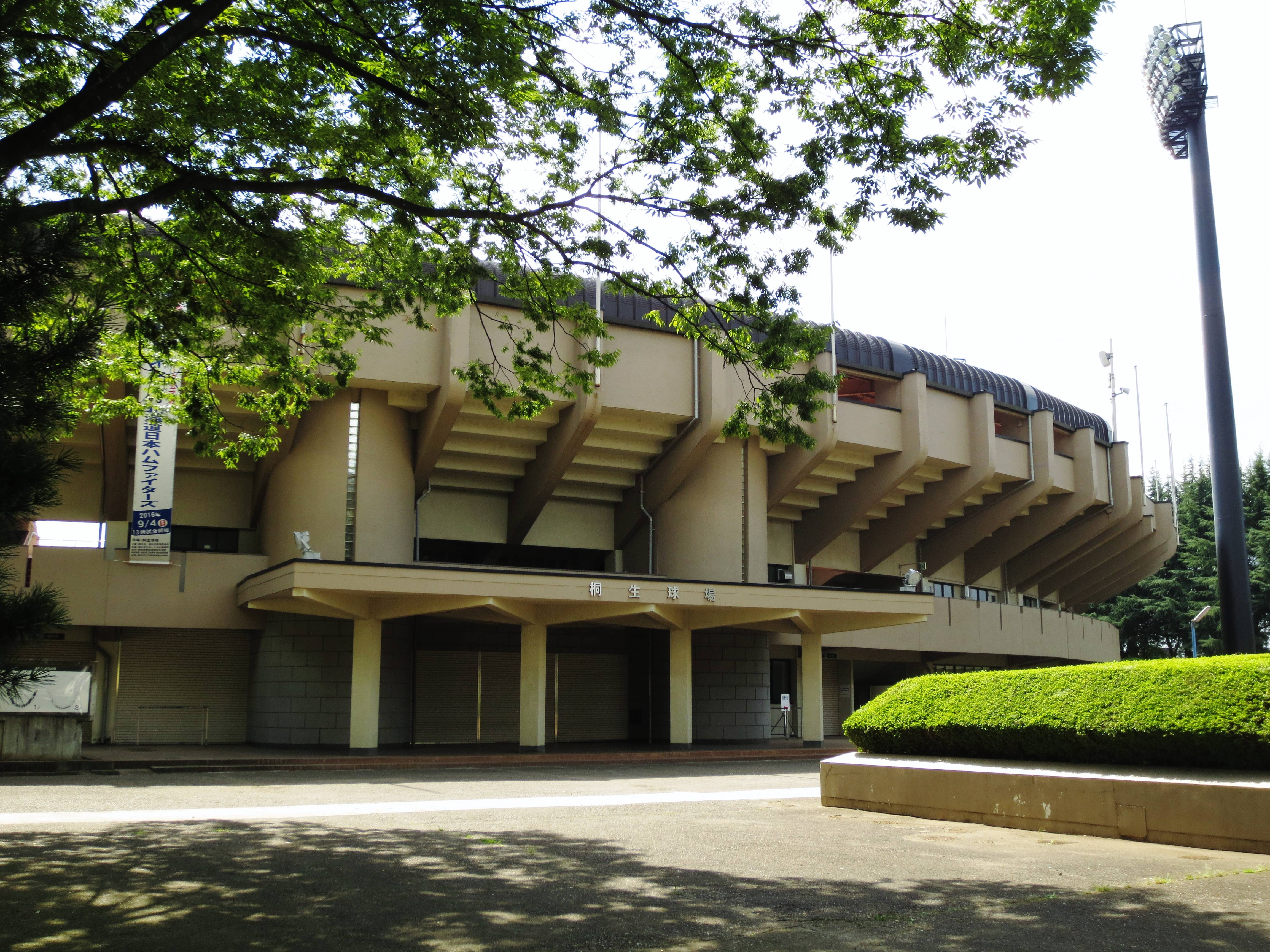 Kiryu Stadium.